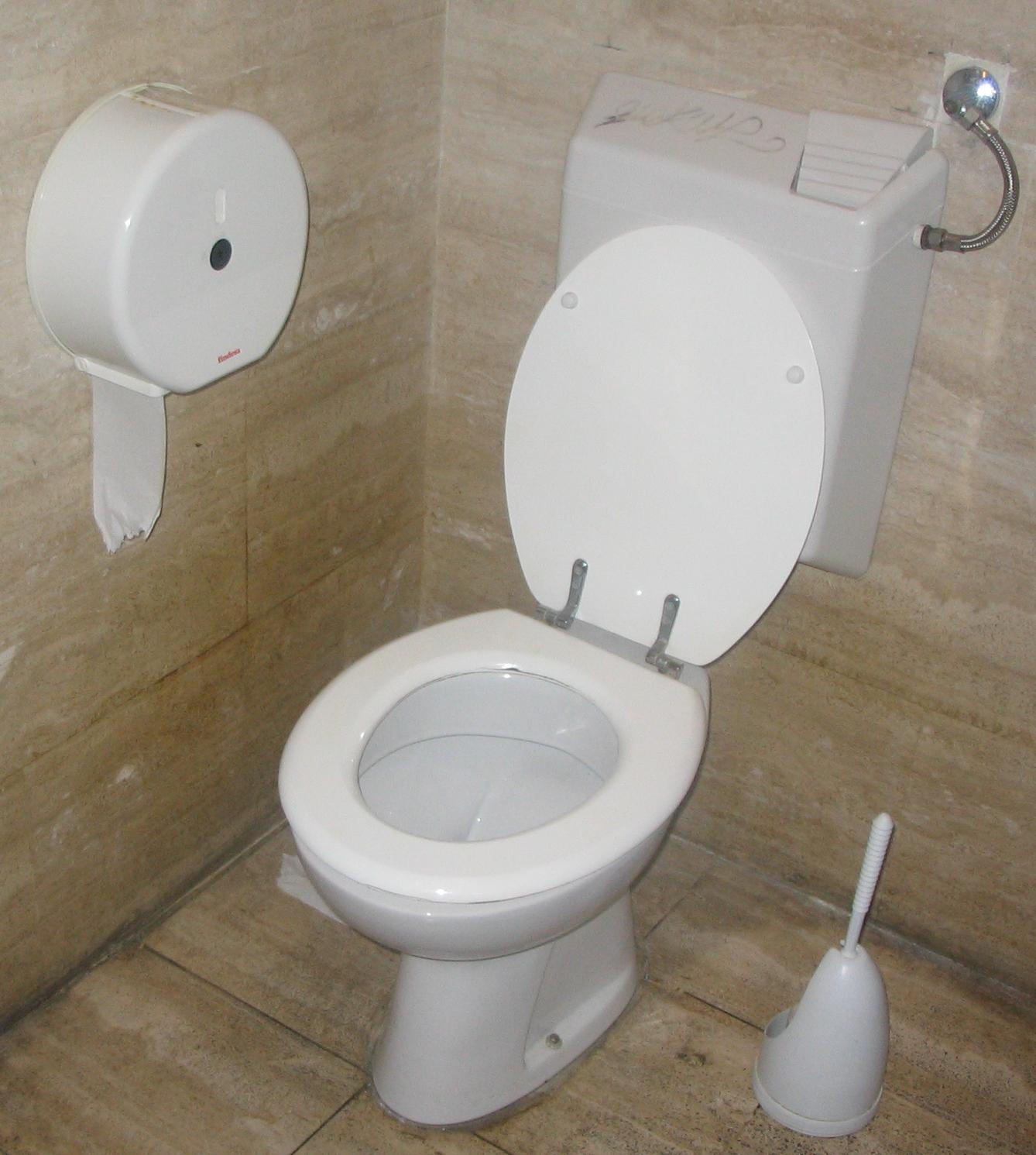 A toilet with a flush water tank. Photo taken on October 5, 2006. Photo by User:Jarlhelm